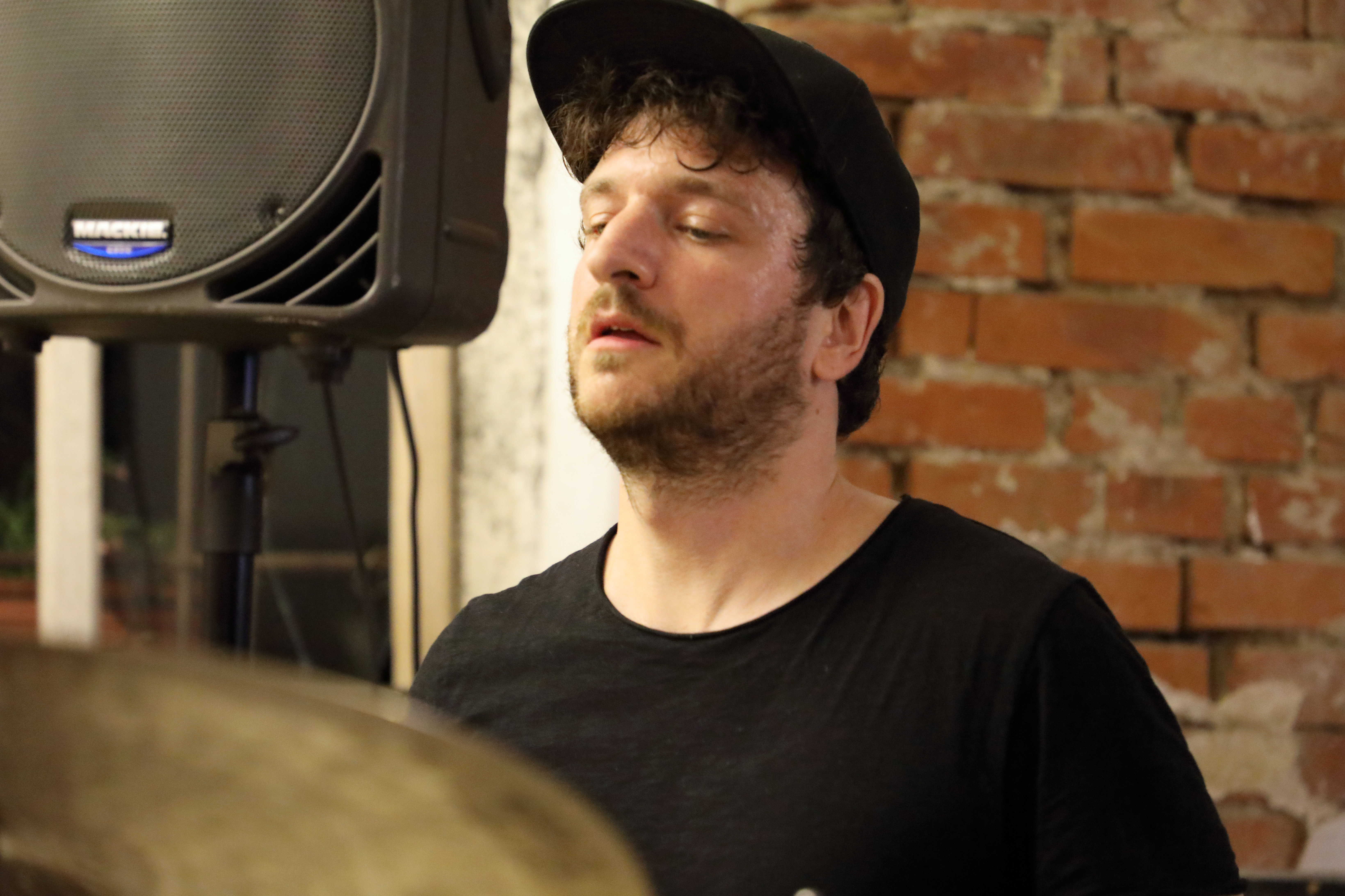 Web Web are Roberto Di Gioia (piano, synth, perc), Tony Lakatos (tenor sax, soprano sax), Christian von Kaphengst (db) & Peter Gall (dr). Here´s the concert at INNtöne Jazzfestival 2019 in the former hog house, now called St. Pig´s Pub.